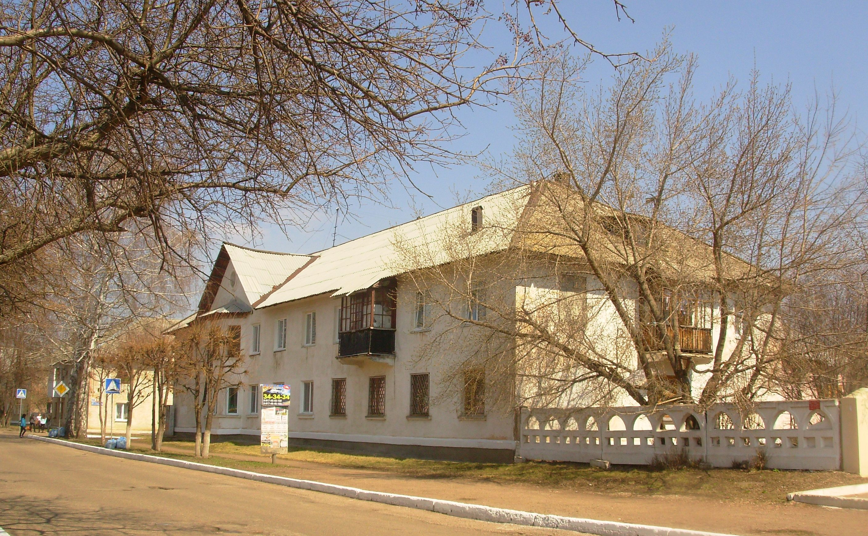 Дом Матюшина В Салавате